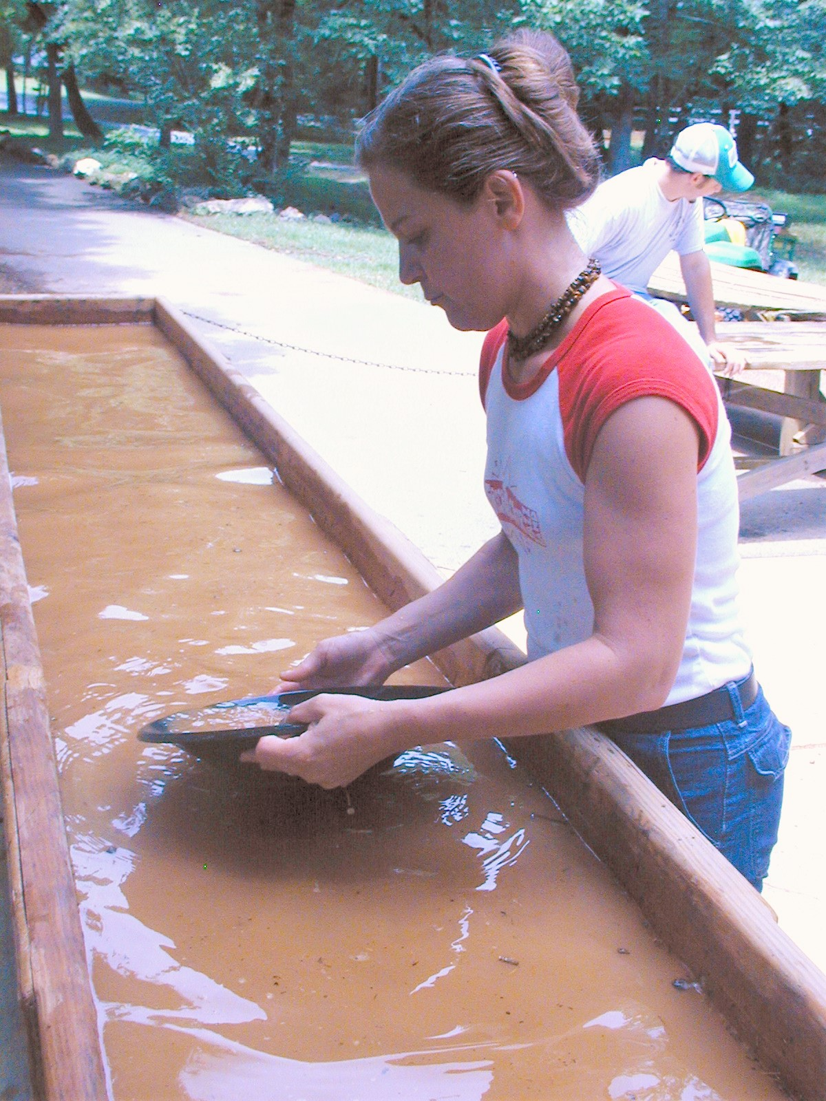 Drew Arrowood -- Taken at Reed Gold Mine, 2005. Miner is Healy Jones Widenhouse.